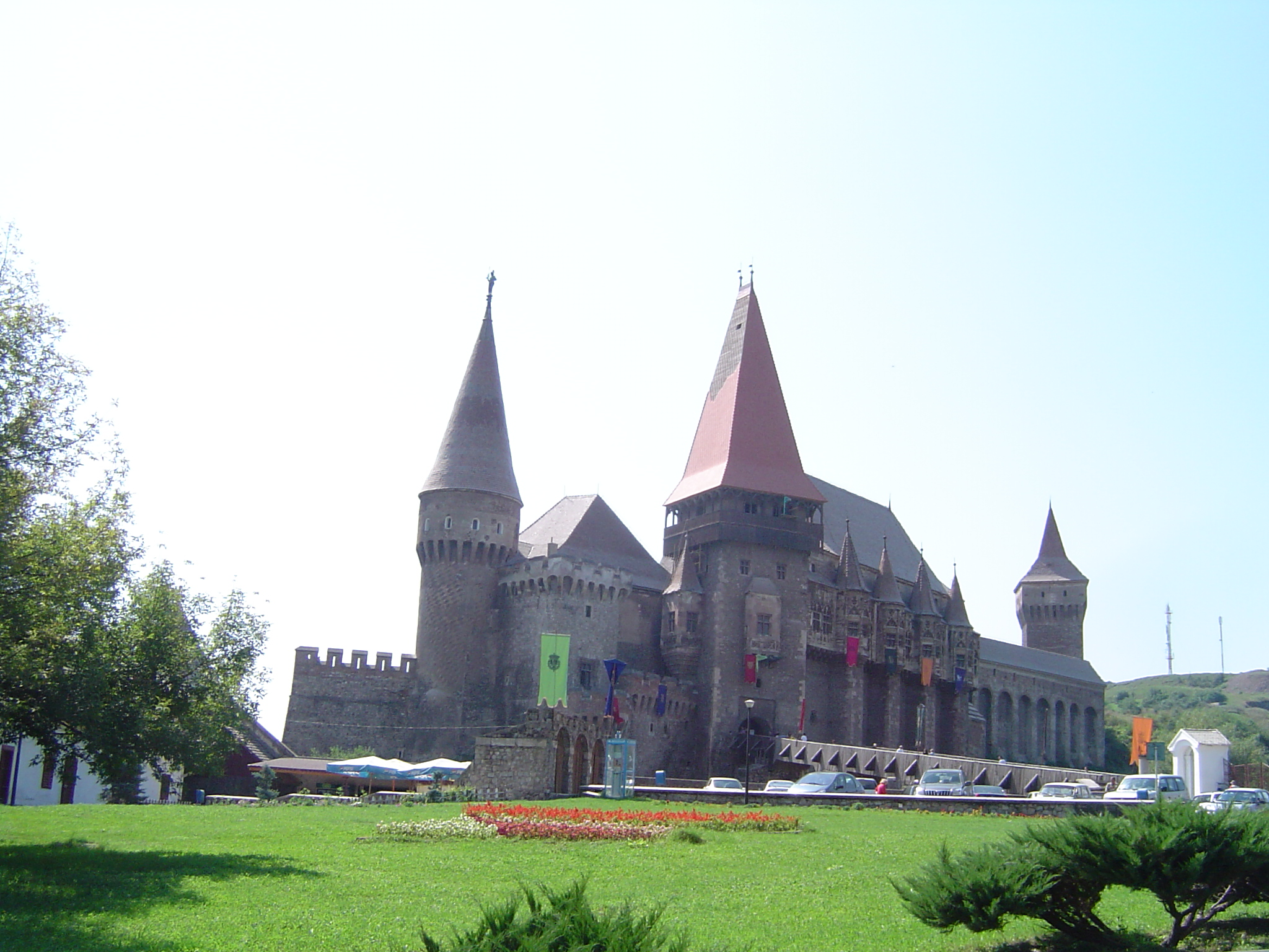 Hunyadi Castle in Vajdahunyad (also known as Corvins' Castle)